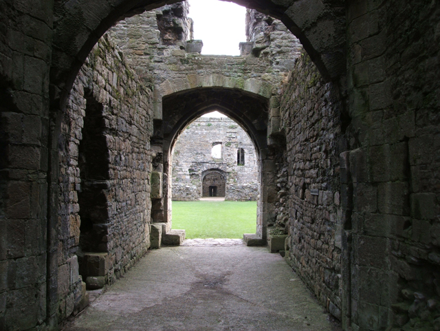 Beaumaris Castle Main entrance gate